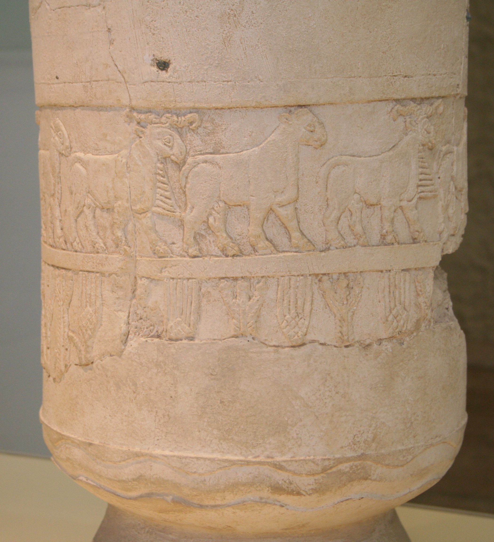 Vorderasiatisches Museum (Near East Museum), Berlin